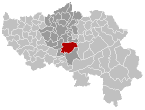 Map, municipality belgium Sprimont